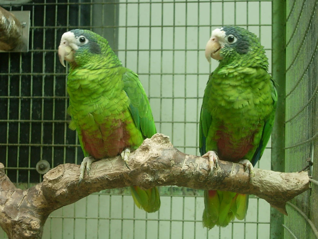 Hispaniolan Amazon. Two in a cage.)